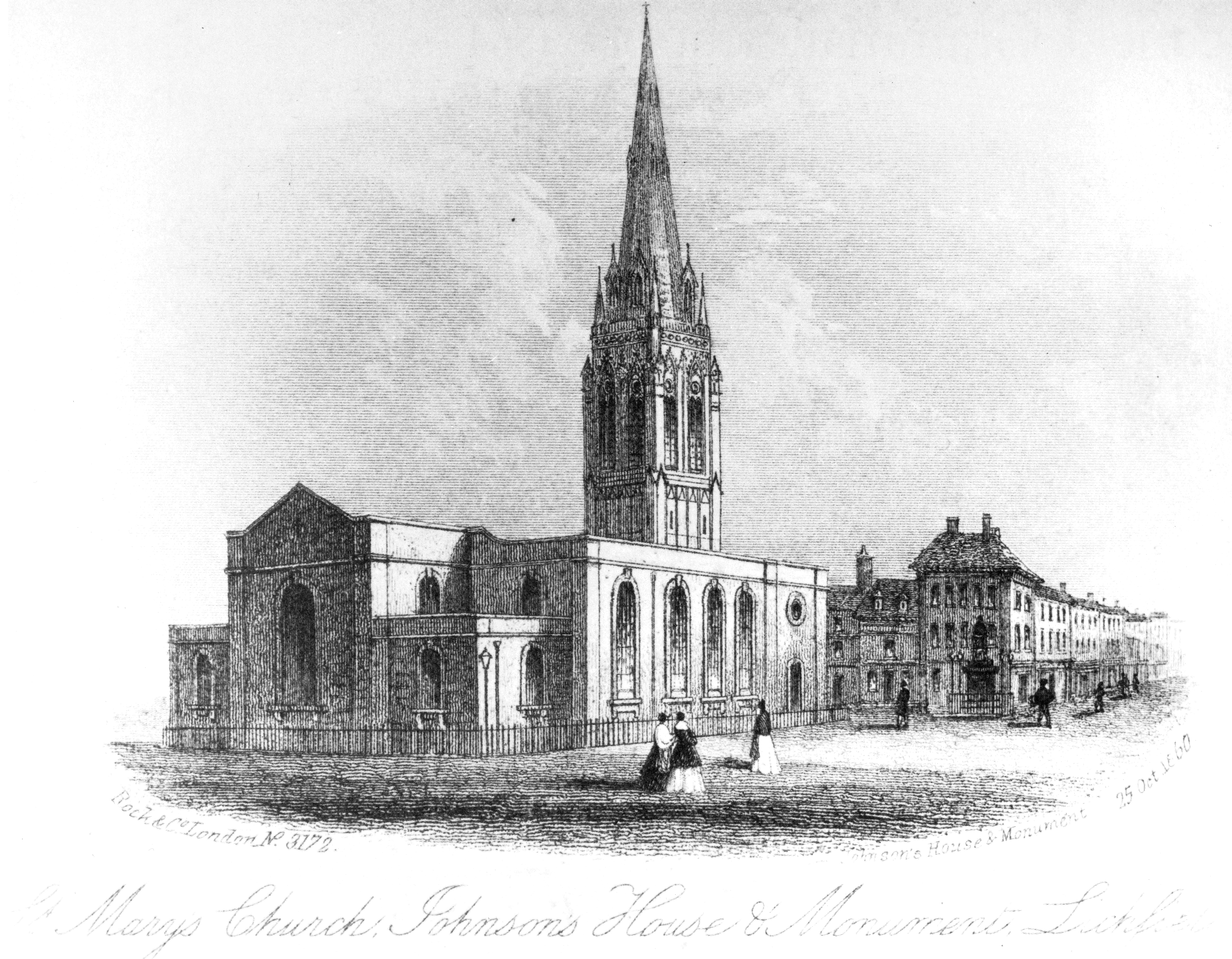 St Mary's Church, Lichfield in 1860. The church is in a state of transition with a newly built gothic spire and classical building. A new spire was built in 1853 and lack of funds delayed the rebuilding of the church until 1870.